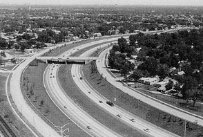 Dan Ryan in 1970. Dan Ryan West Leg at Genoa Avenue. The Dan Ryan West Leg is now more commonly called Interstate 57. From